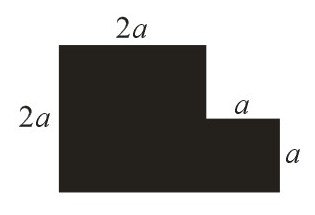 Illustration for "Pythagoras' Classical Problem by Sam Loyd"